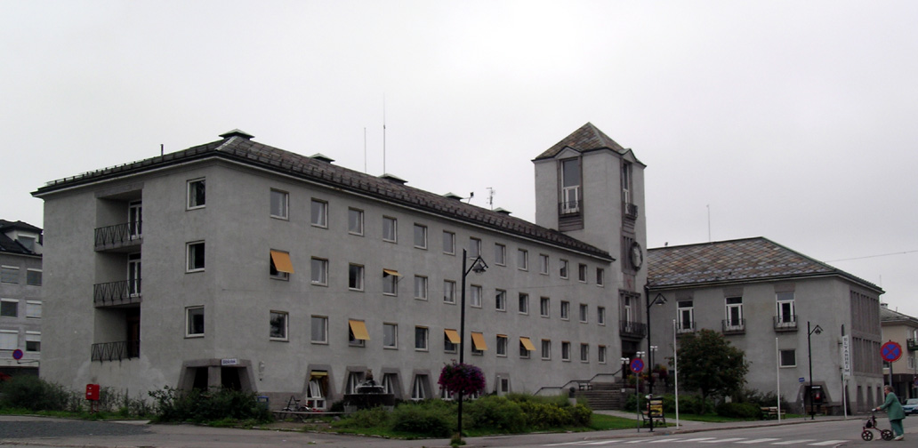 Elvarheim; the town hall of Elverum, Hedmark, Norway.